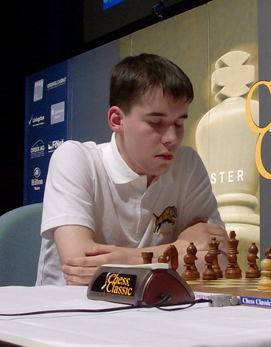 Ian Nepomniachtchi, chess grandmaster from Russia, 2009